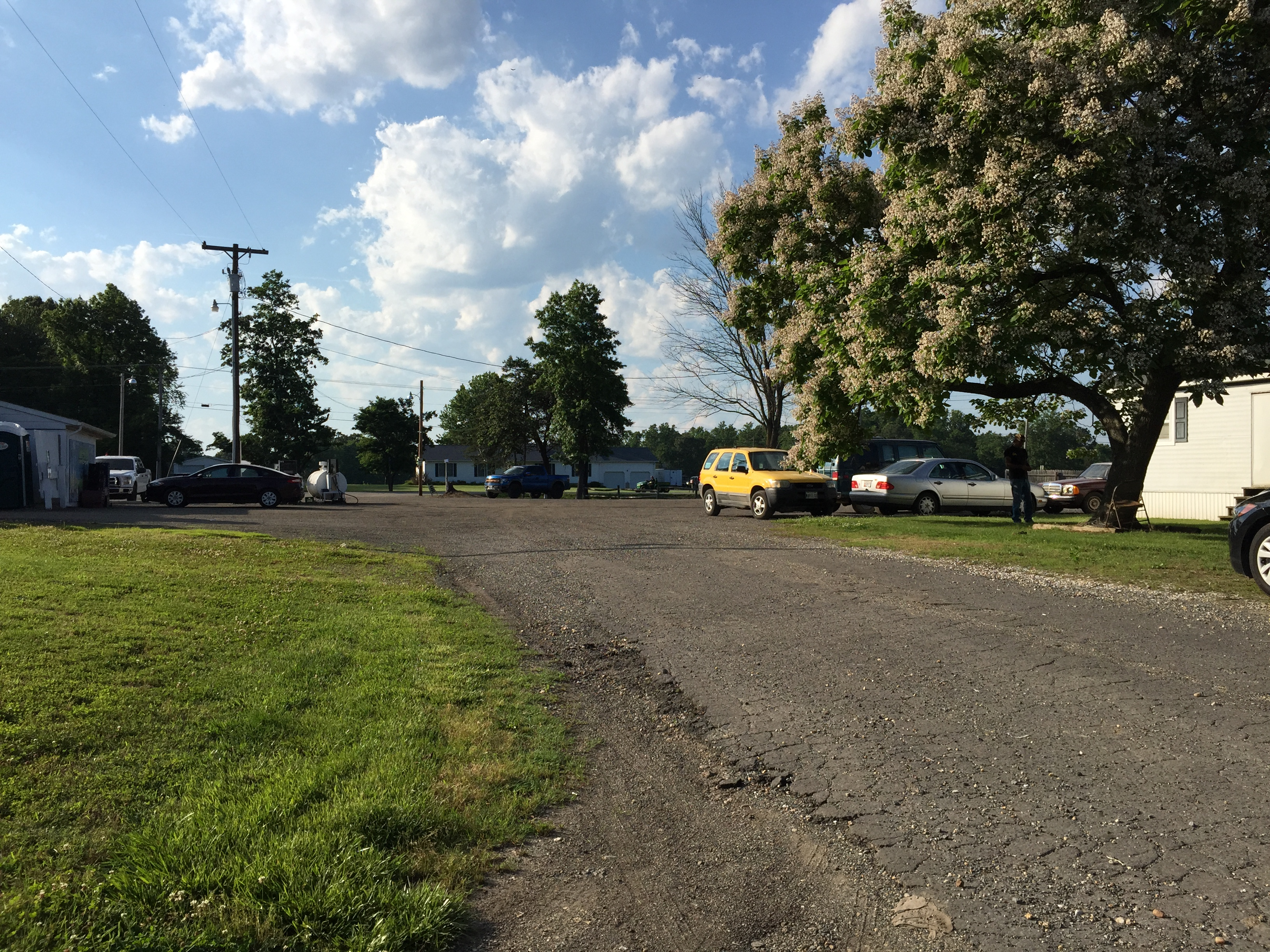 View north at the south end of Maryland State Route 868 (Stone Corner Lane) in Budds Creek, St. Mary's County, Maryland